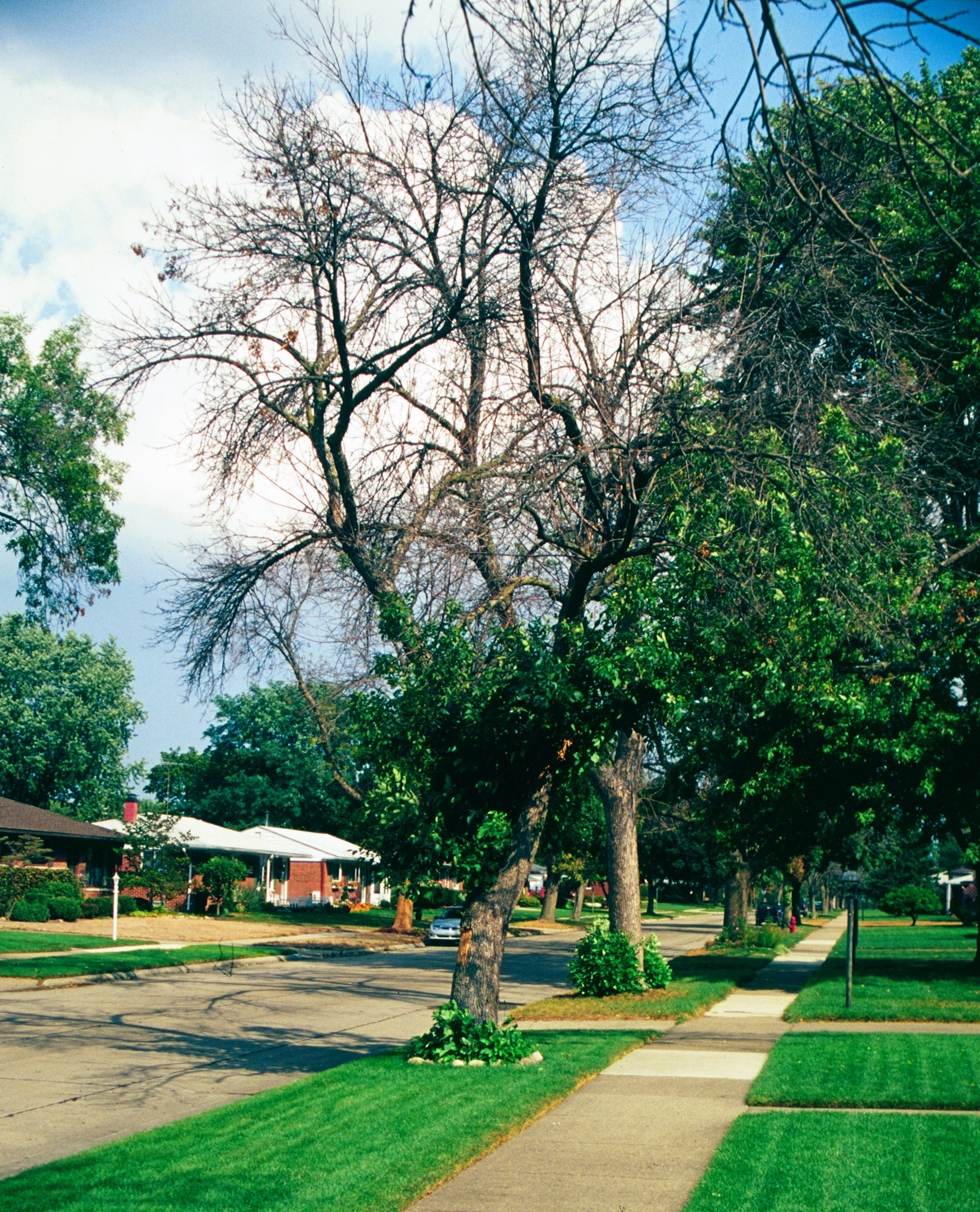 Fraxinus pennsylvanica trees killed by Agrilus planipennis